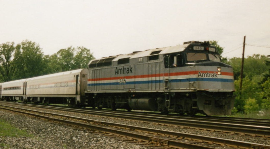 Amtrak 345, an EMD F40PH pulls a passenger train through Porter, Indiana, in 1993.